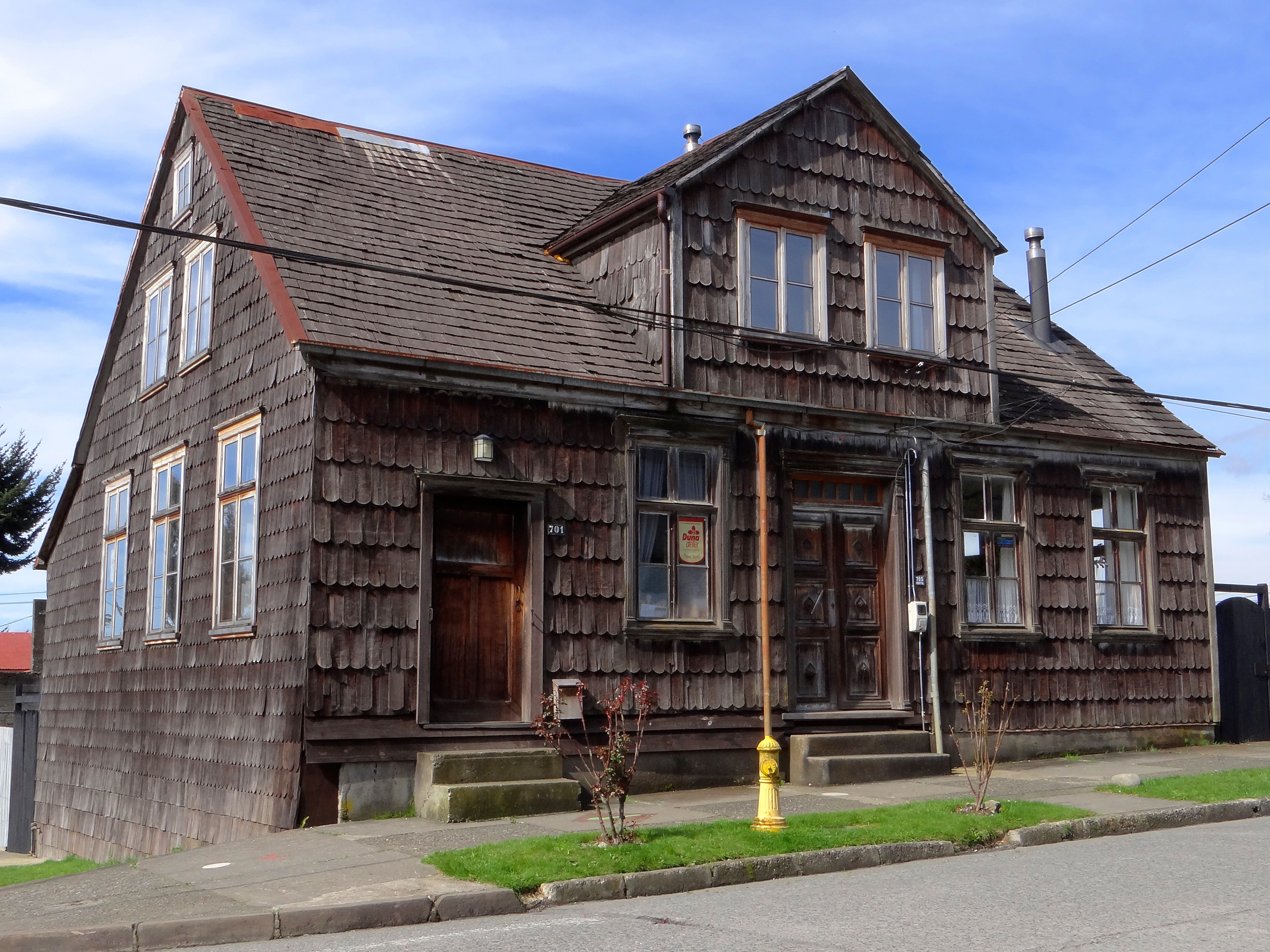 This is a photo of a national monument in Chile: 729